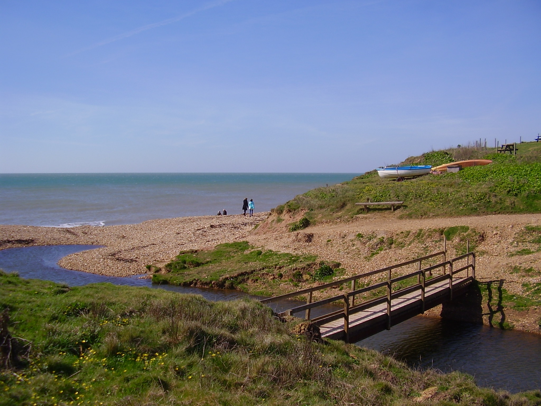 Grange Chine, near Brighstone, Isle of Wight, UK